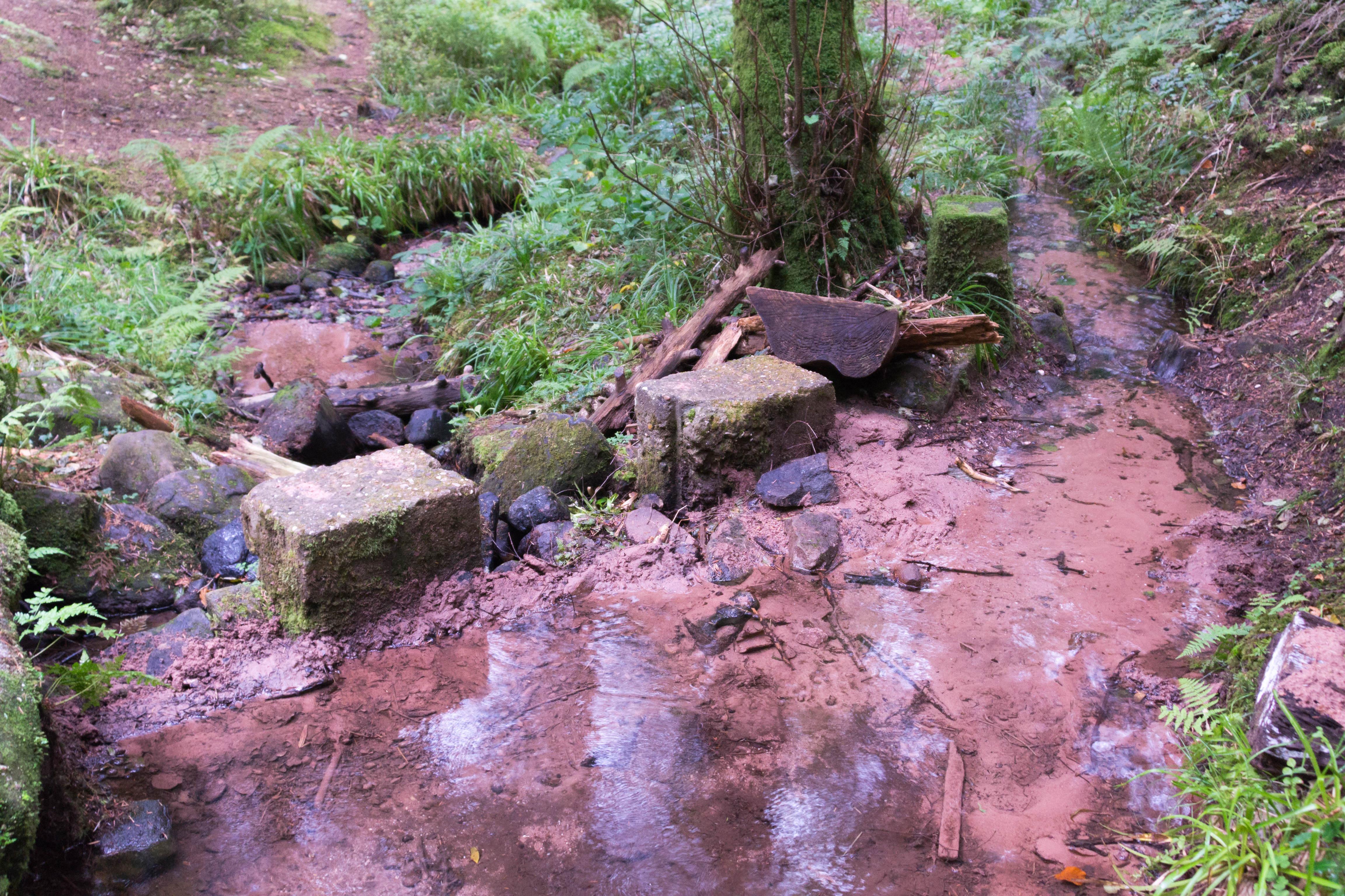 The cofferdam wasn't fully watertight, but enough to allow equipment to cross the old pond. The Robache stream was diverted to an old diversion canal which bypasses the pond. This explains the concrete remnants in the cofferdam: they are the grooves of the old sluice gate which controlled the diversion.